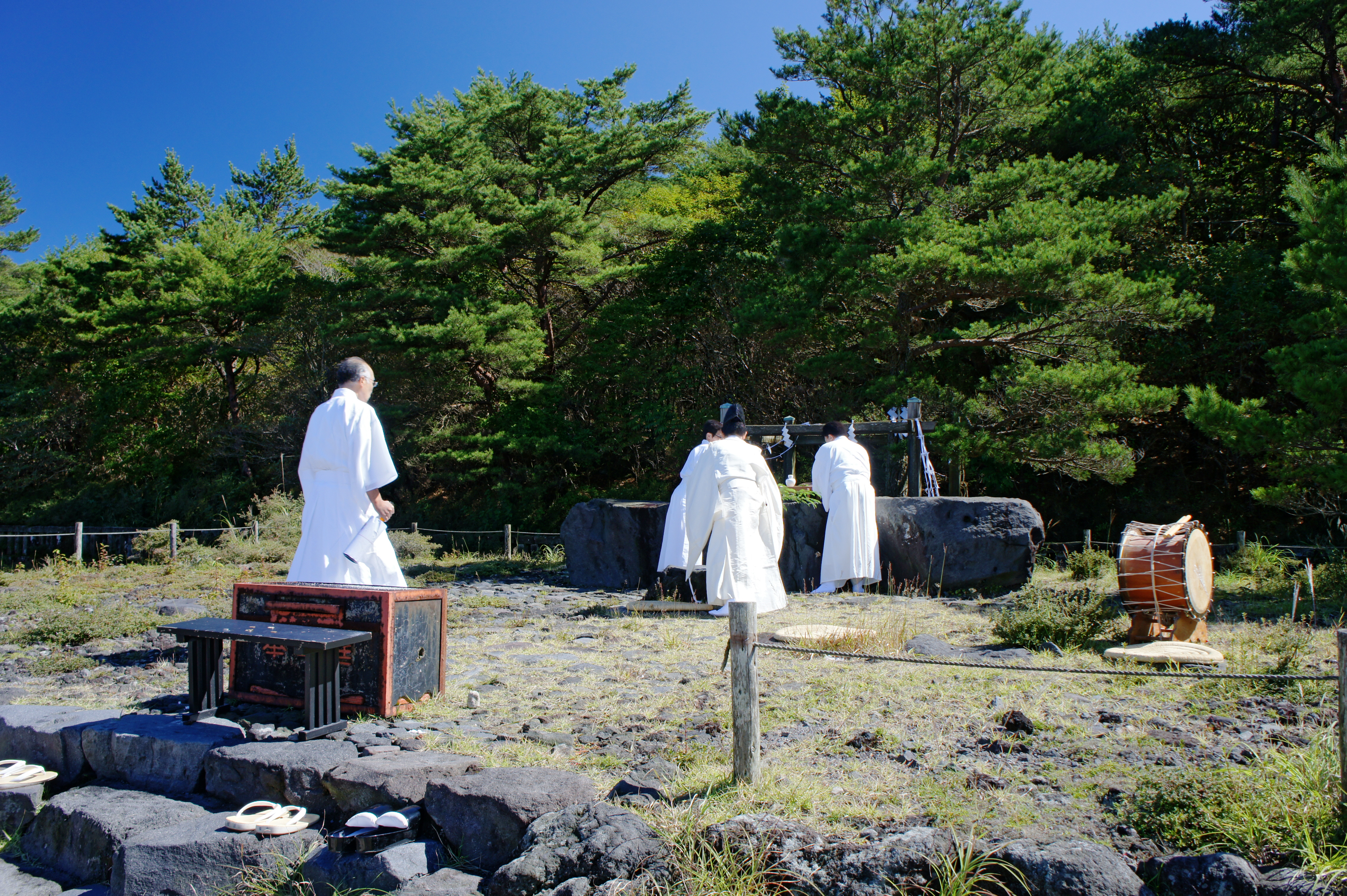 Takachiho-gawara Furumiya-ato Shrine in Kirishima, Kagoshima prefecture, Japan. Here is a Sacred ground of the descent to earth of Ninigi-no-Mikoto (the grandson of Amaterasu).